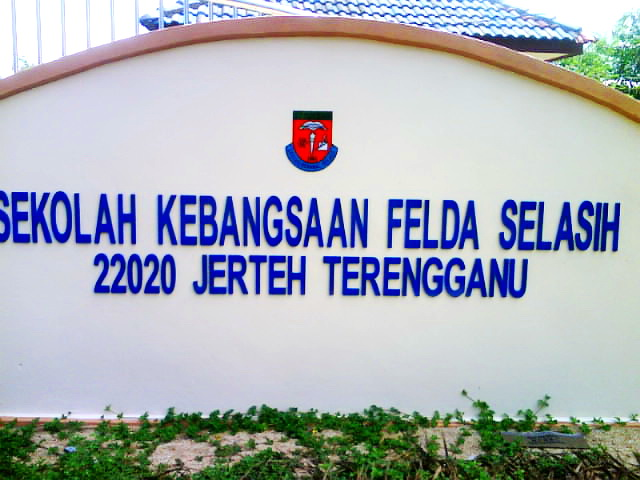 Gate skfs